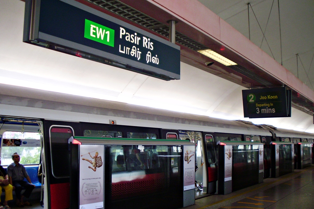 Platform of Pasir Ris MRT Station, Singapore